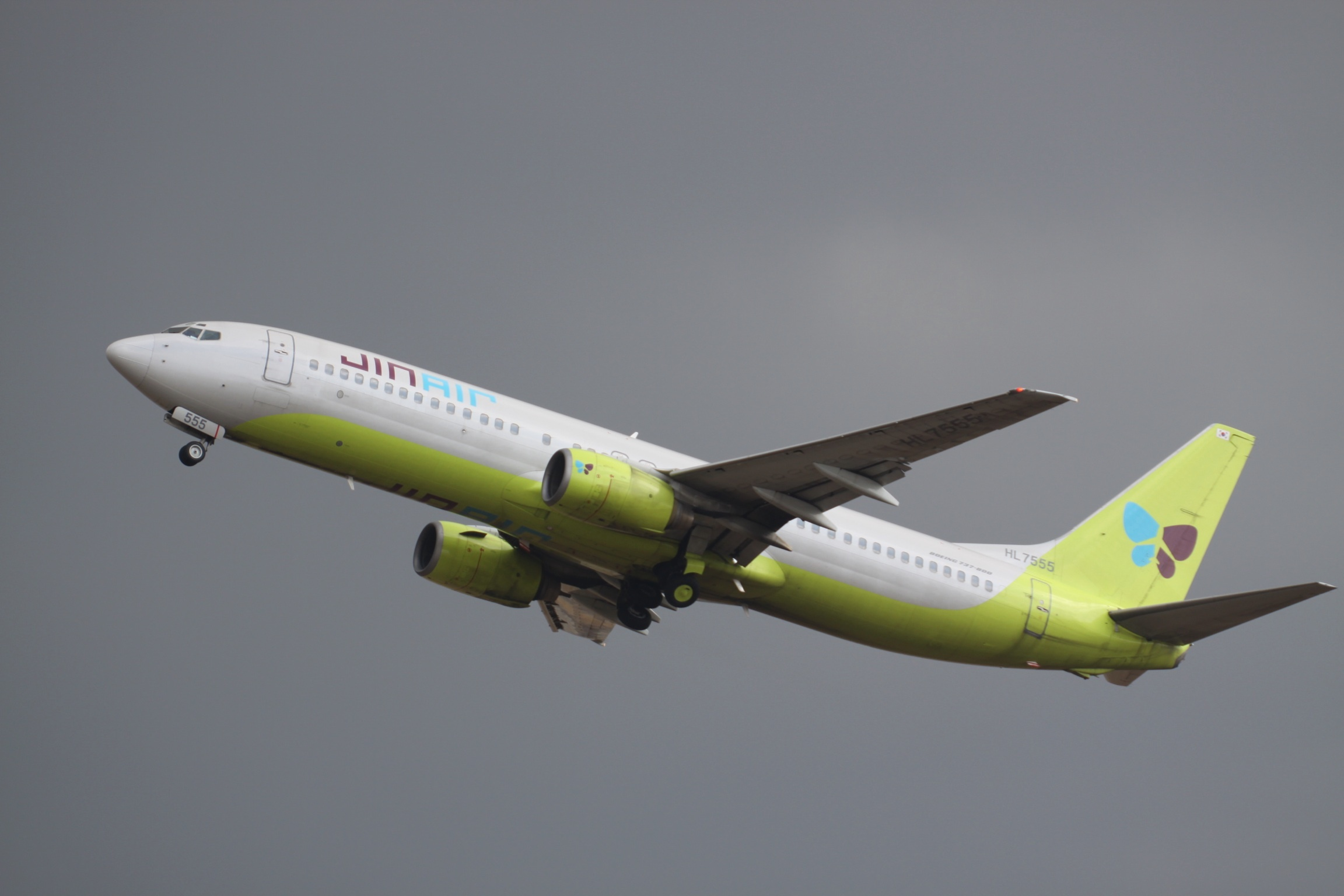 At Seoul Gimpo International Airport